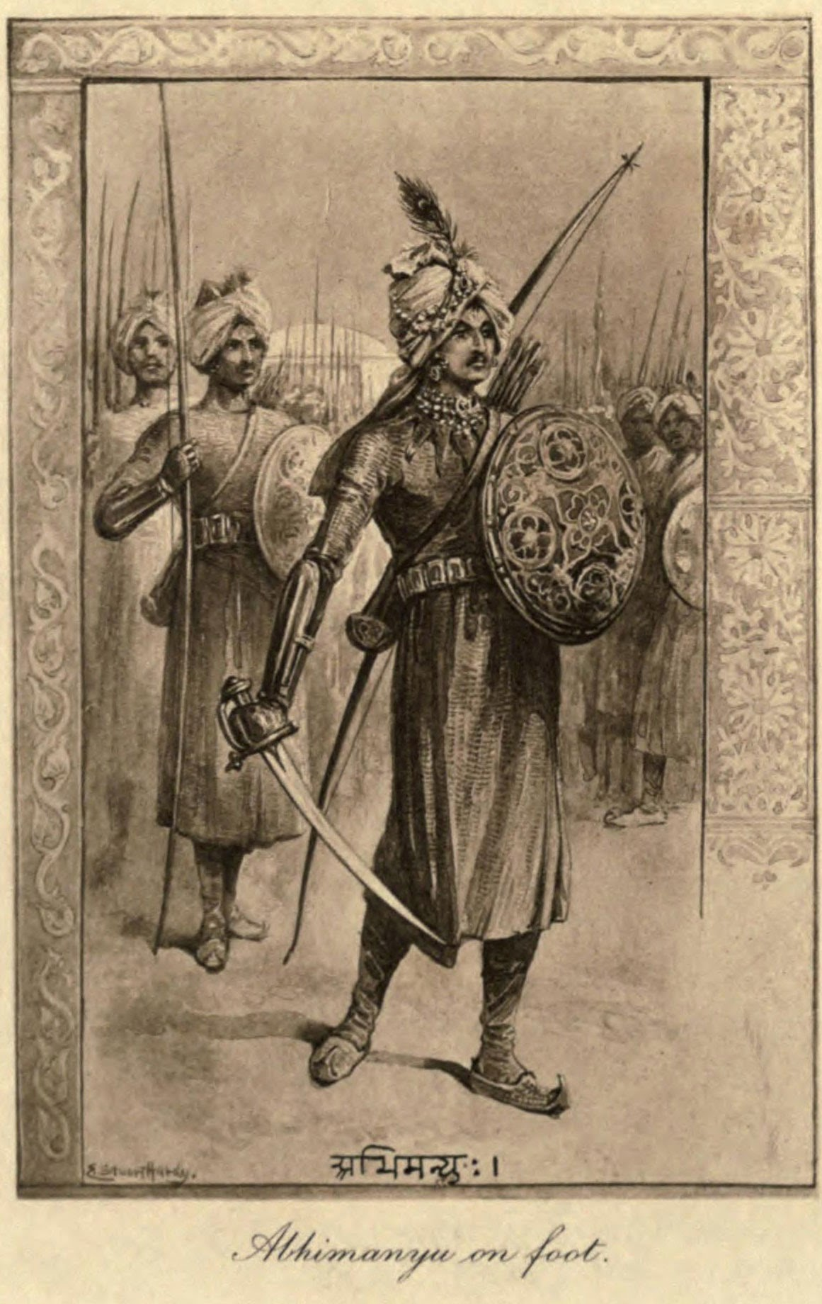 Illustrations from the Book Maha-Bharata, The Epic of Ancient India by Romesh Dutt - 1899 Read the full book online or download the PDF. Twelve Photogravures from Original Illustrations Designed from Indian Sources by E. Stuart Hardy